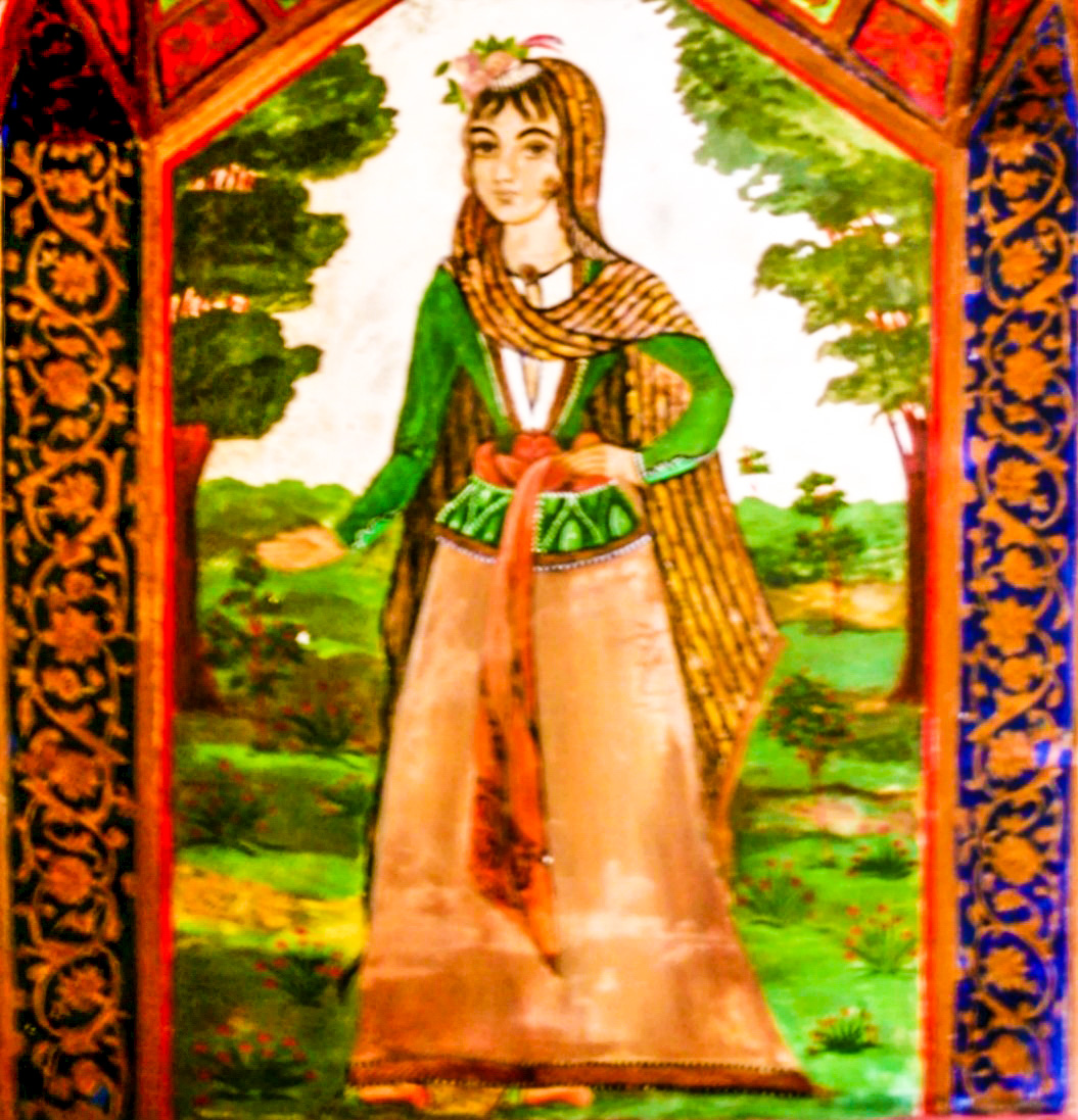 Дом Шекихановых edited